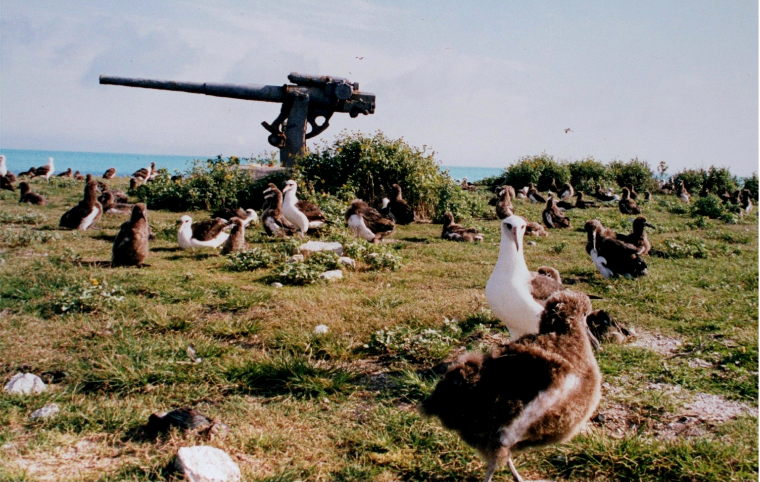 Laysan Albatrosses at Midway Atoll Photographed by Brocken Inaglory in ?